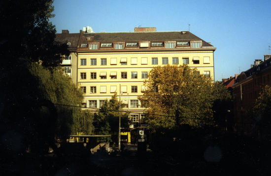 The Sveavägen 98 building in Stockholm, owned by the syndicalist union the SAC, housing the Secretariat, the Federativs Förlag publishing house, and other functions.